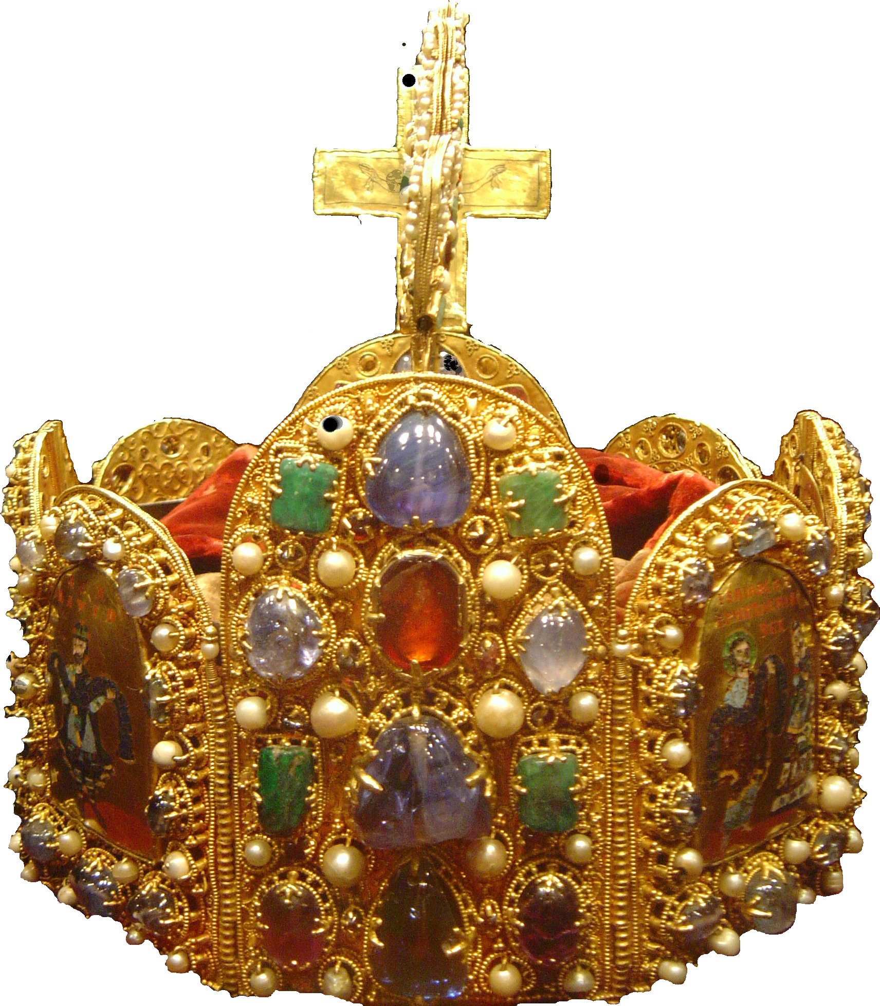 The crown of the Holy Roman Empire in the Vienna Schatzkammer